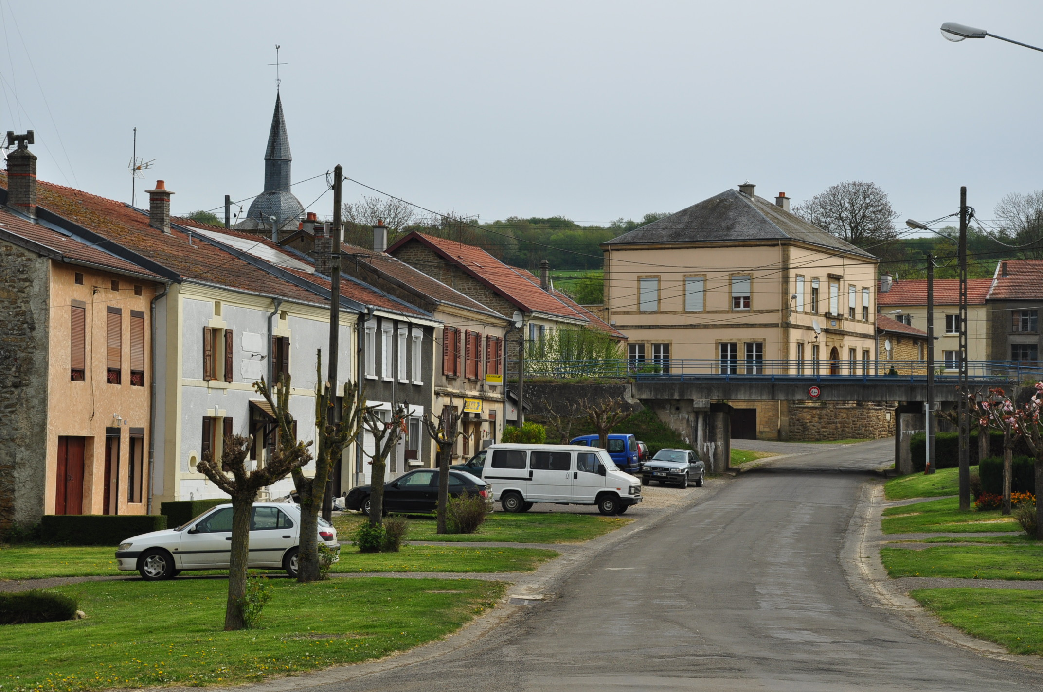 The Rue des Ponts (Bridges street) in Lamouilly (Meuse Department, northern France).